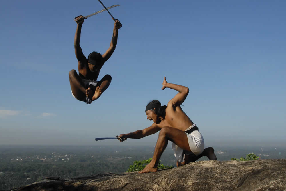 angampora fighters at Korathota hill top.